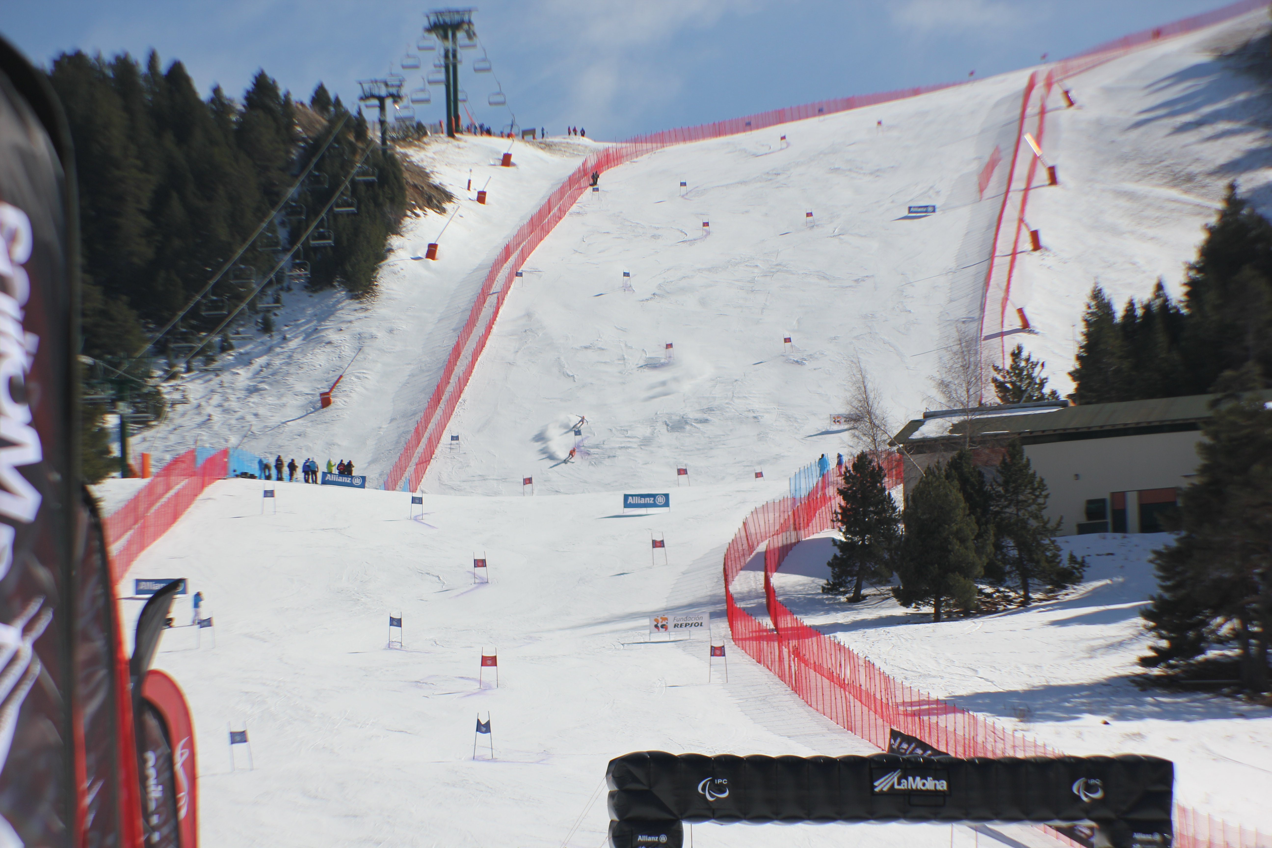 2013 IPC Alpine World Championships. The women's vision impaired Giant Slalom race on the final day of individual competition.